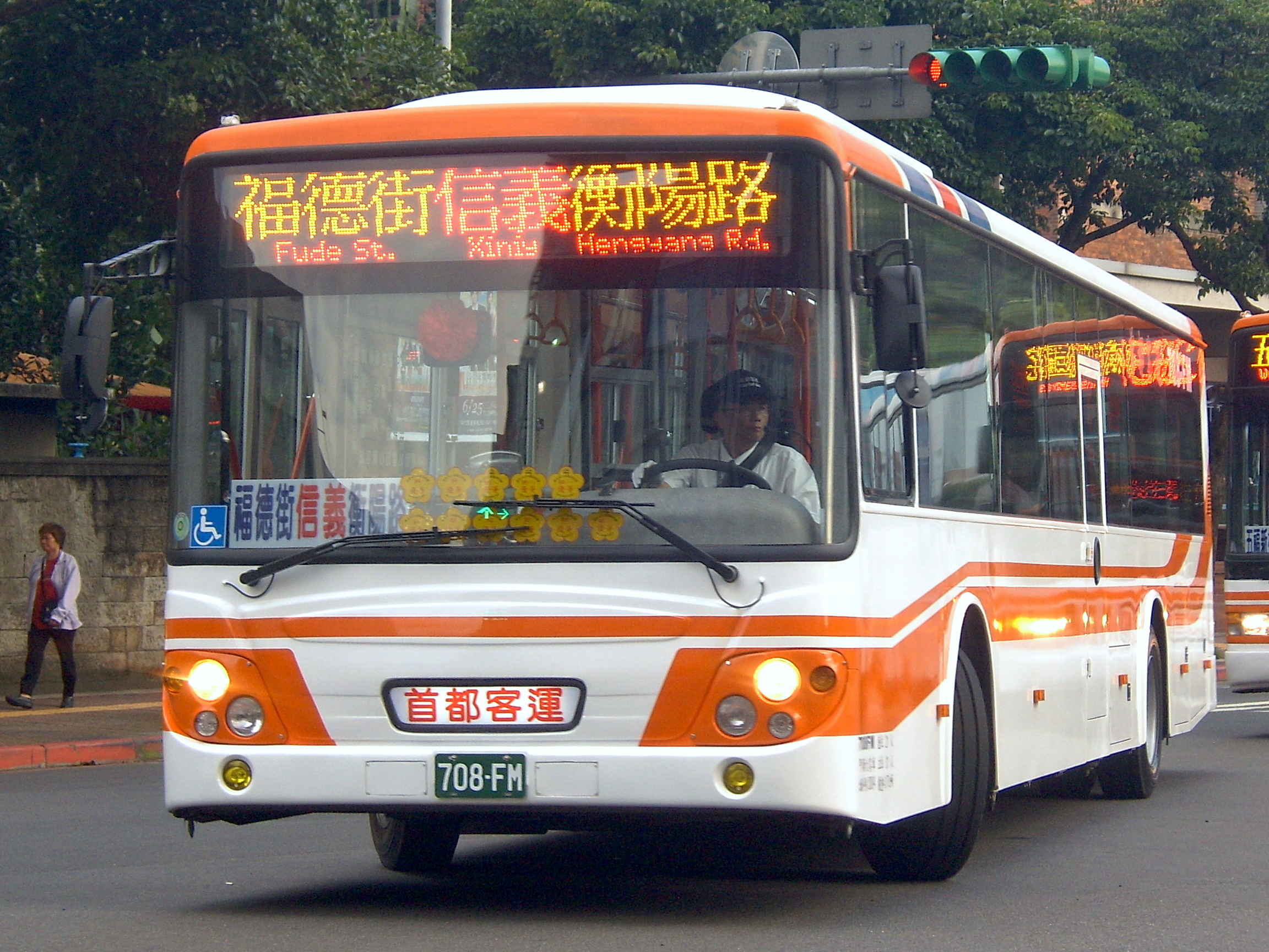 Daewoo BS120CN with Doosan DL08S.